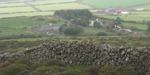 Castell Caeron Hill Fort and the Pen-y-Castell cottages from the top of the ffridd